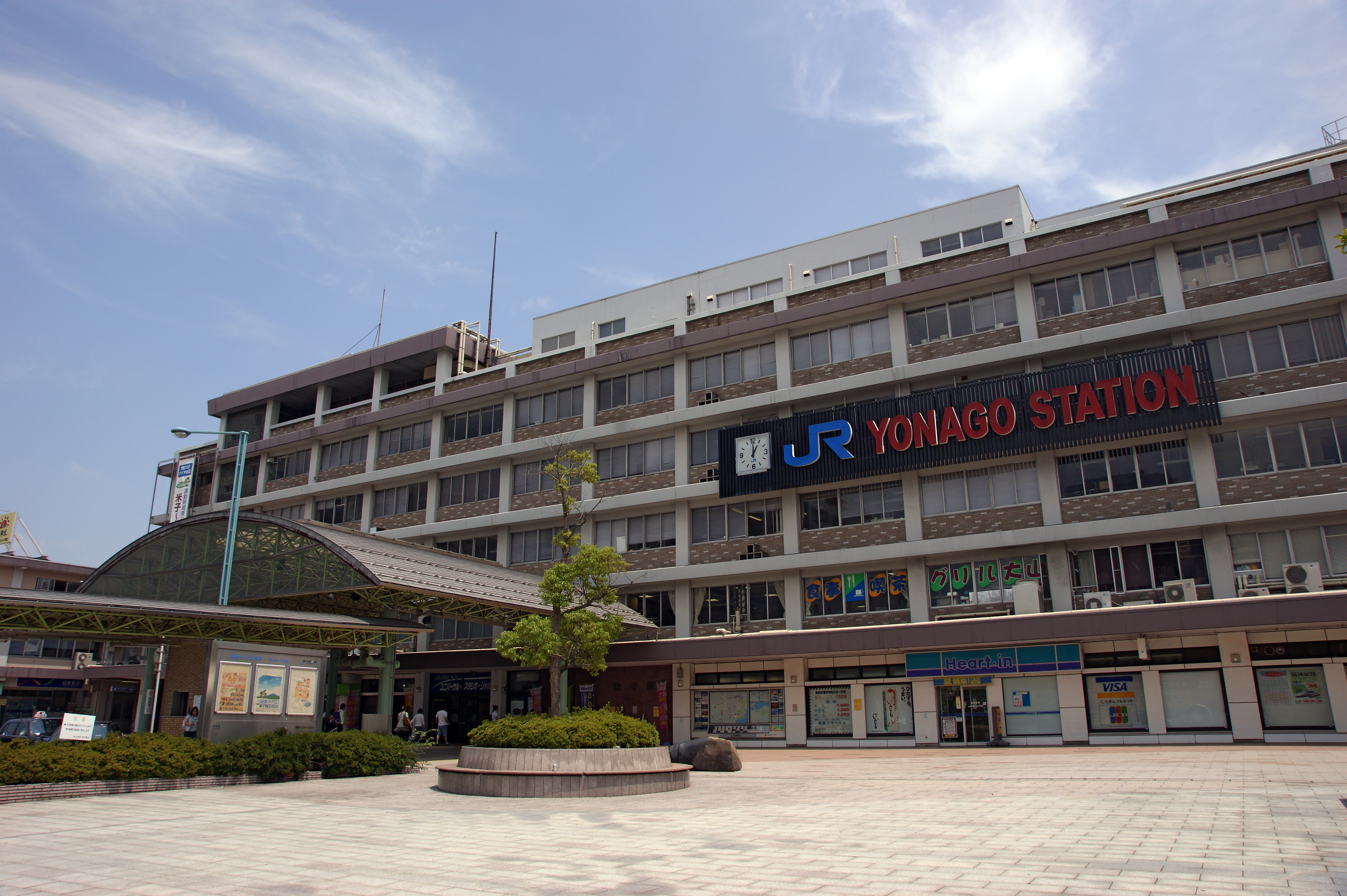 Yonago Station in Yonago, Tottori prefecture, Japan